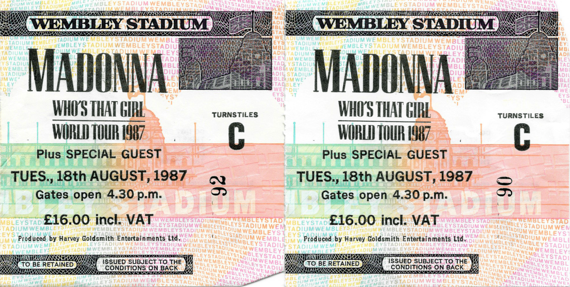 A Who's That Girl's concert ticket